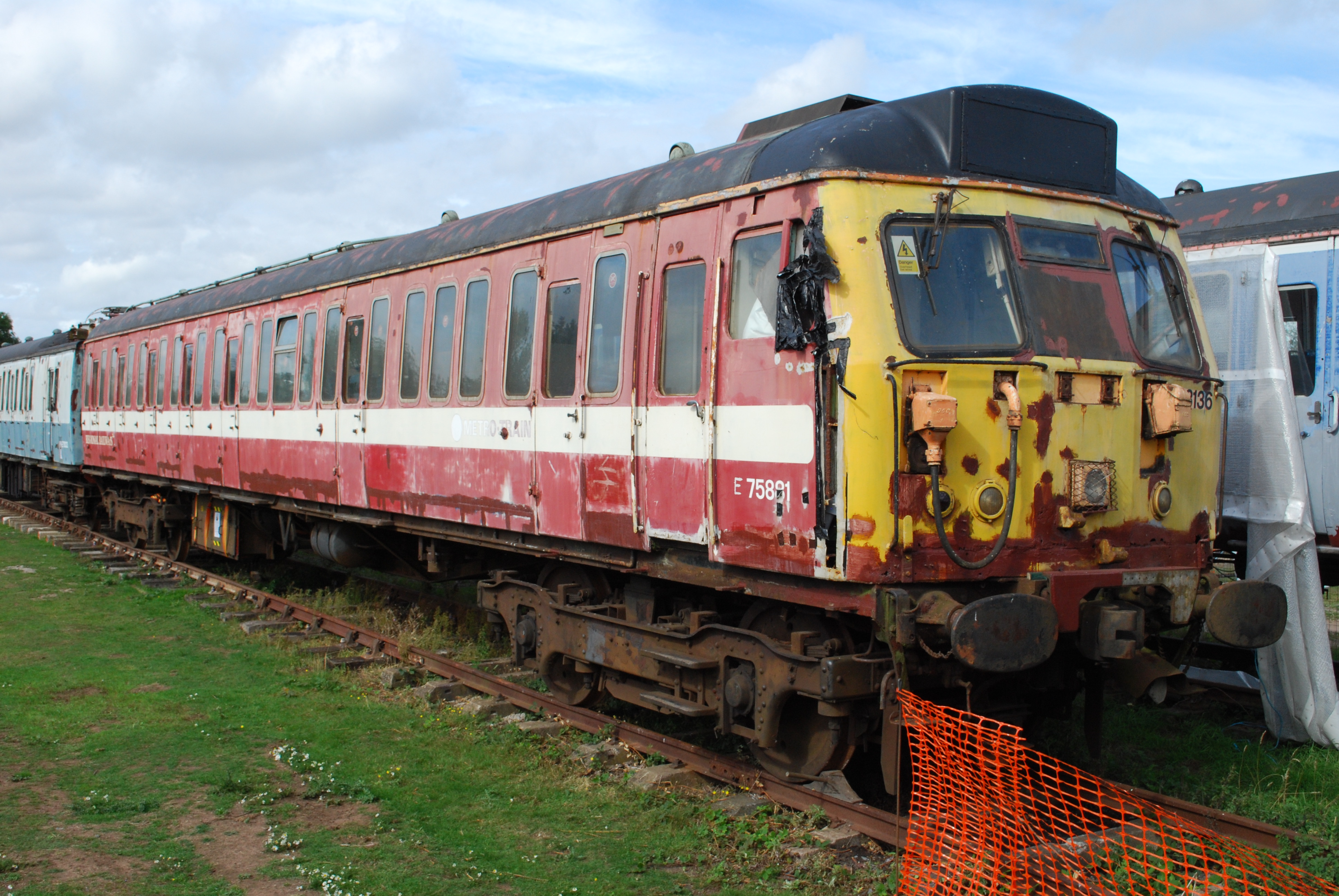 B.R. (E.R.) Class AM8/1 (later Class 308/1) 25k v ac overhead Standard Mk.I 4-car outer suburban e.m.u. No.308 136 (ex-136) in West Yorkshire P.T.E. livery, the units later being transferred there from the G.E. lines. At the Electric Railway Museum, Coventry, 9/11.